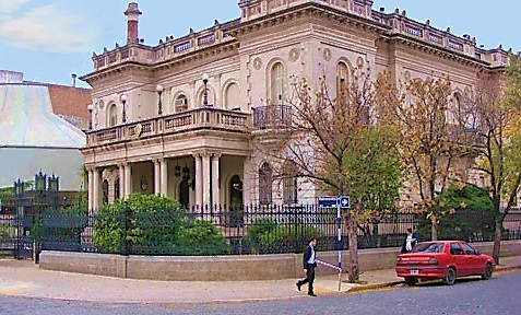 The Tampieri Palace, designed and built by Ricardo Tampieri in 1931. The building was later sold to the City of San Francisco, Córdoba, and has served as its city hall since 1965.